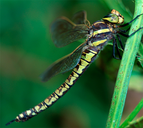 Aeshna serrata, female